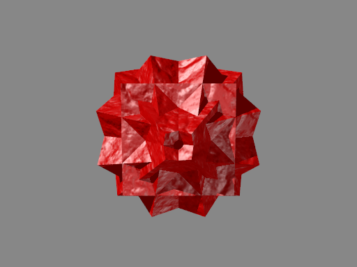 a compound of cubes created with POV-Ray. This image was created with POV-Ray.